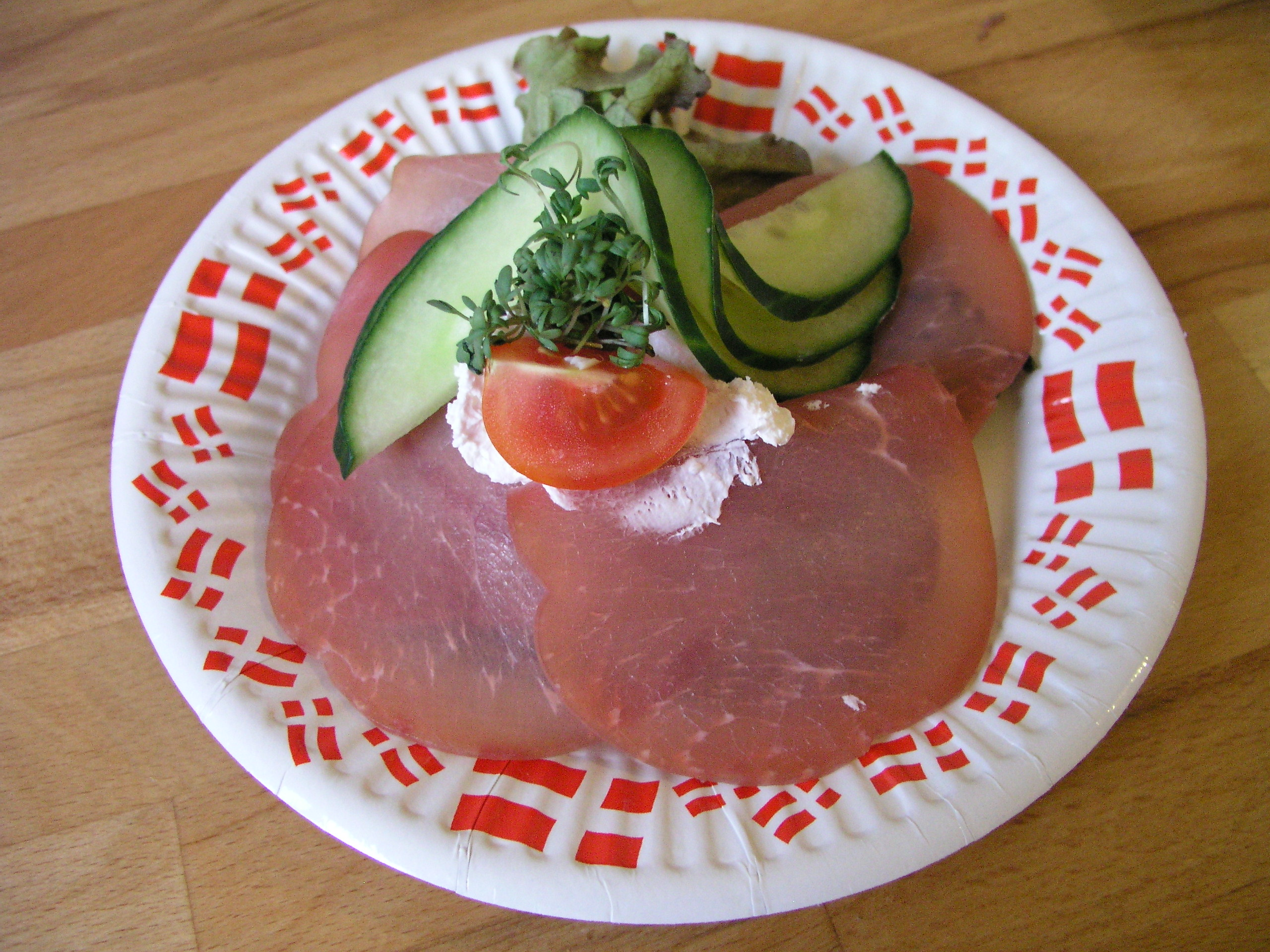 Danish open sandwich (smørrebrød) on dark rye bread (completely covered) with xxx meat, salad, cucumber, peberrodssalat (horseradish-cream-sugar-lime spread), garden cress, and tomato.